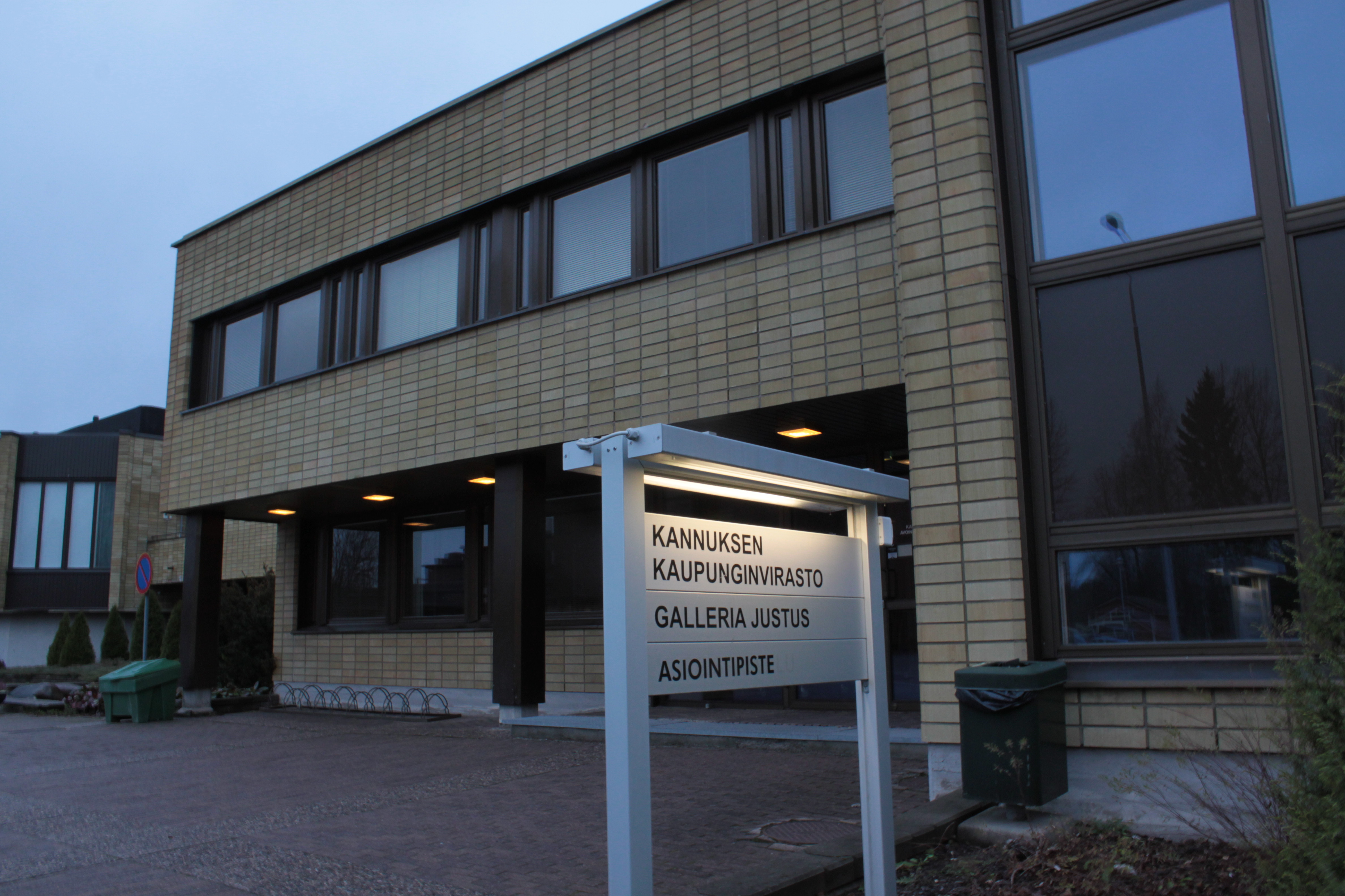 Entrance of the Kannus town hall